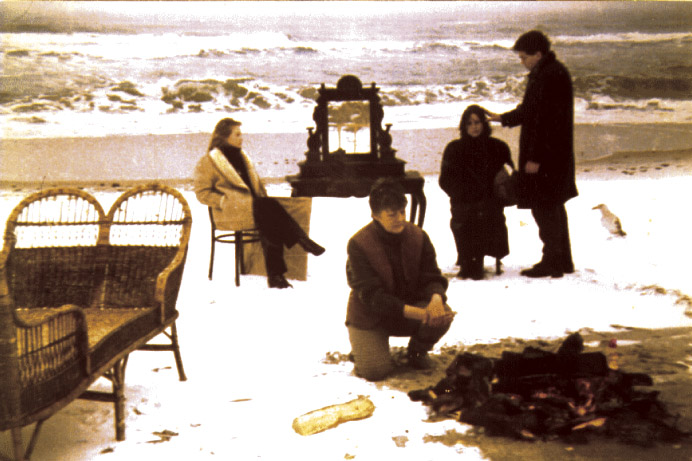 frame of the film Wooden Staircase by Vidas Rasinskas